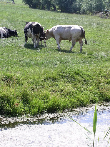 Cattle in (or near) Kinderdijk, NL